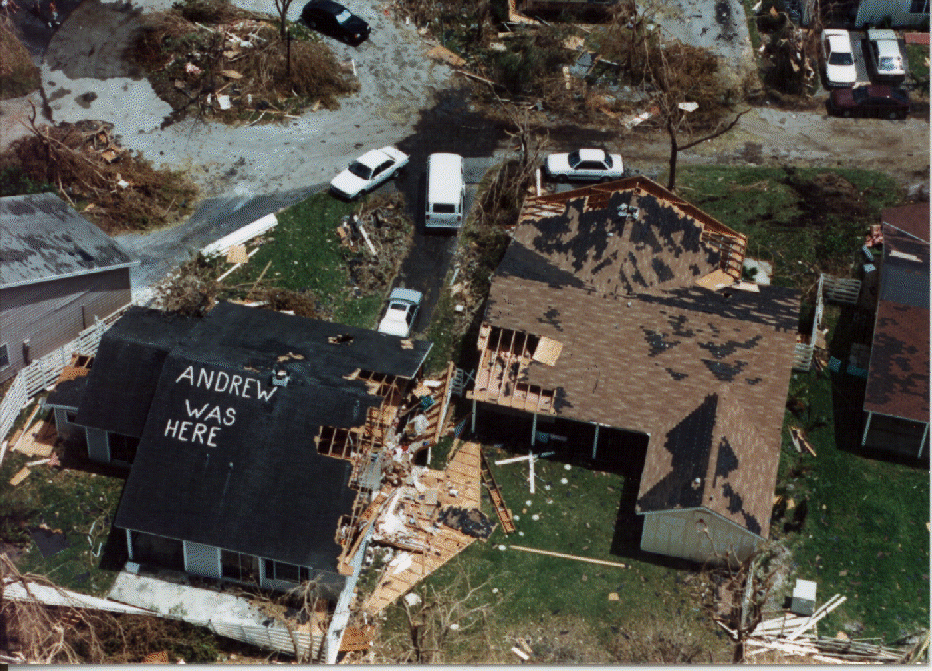 Damage from Hurricane Andrew in Florida in 1992